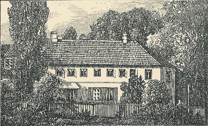 En del af gamle Bakkehus' søndre fløj. De fire små vinduer for oven nærmest skorstenen til højre angiver Knud Lyne Rahbeks lejlighed som nygift. I samme værelser boede senere Poul Martin Møller, Thiele og Möhl. Efter en tegning fra omkring 1850.